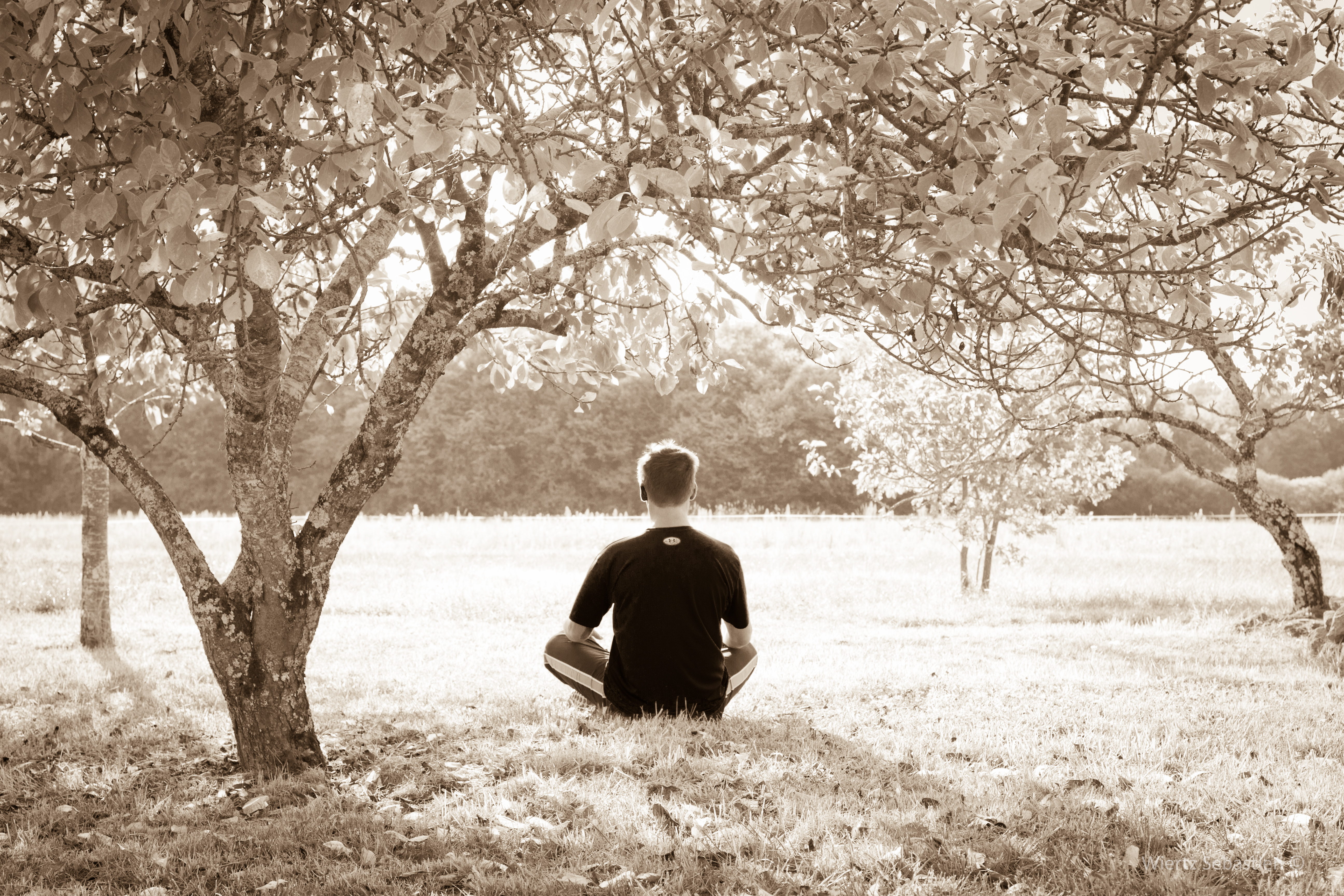 Meditation is part of yoga in Hinduism, Buddhism and Jainism